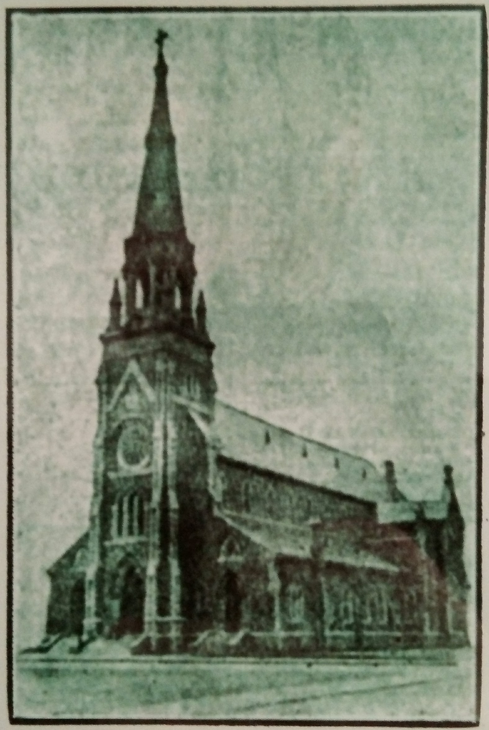 Image from article in Ottawa Journal 1922